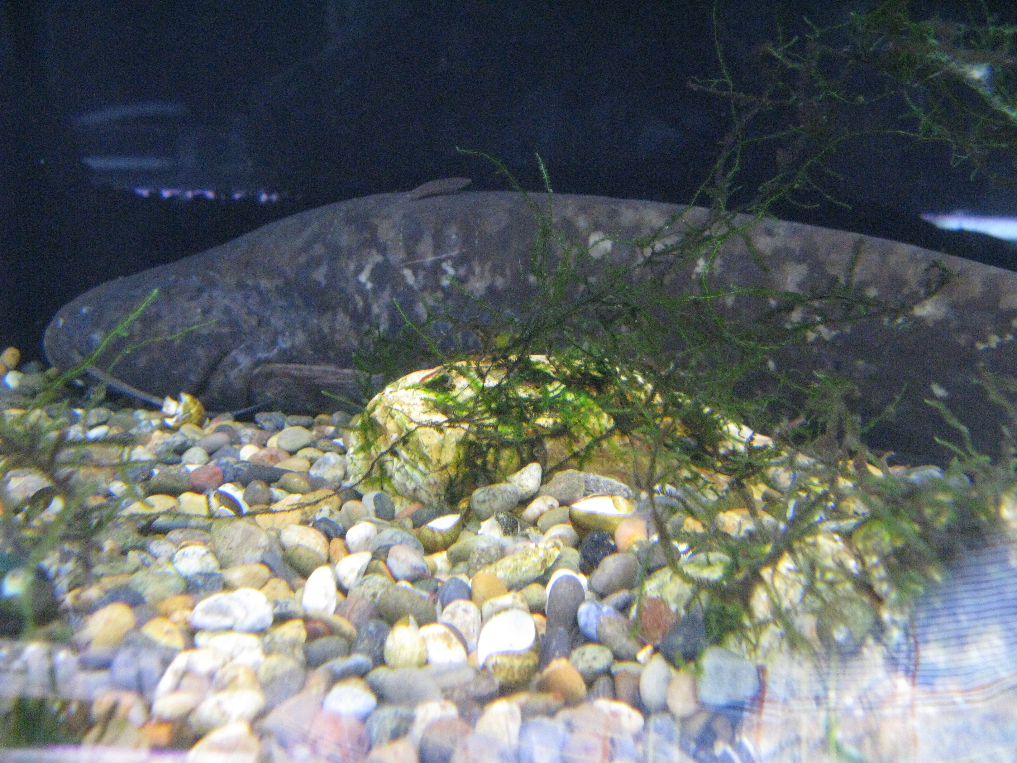 Scientific name Silurus lithophilus